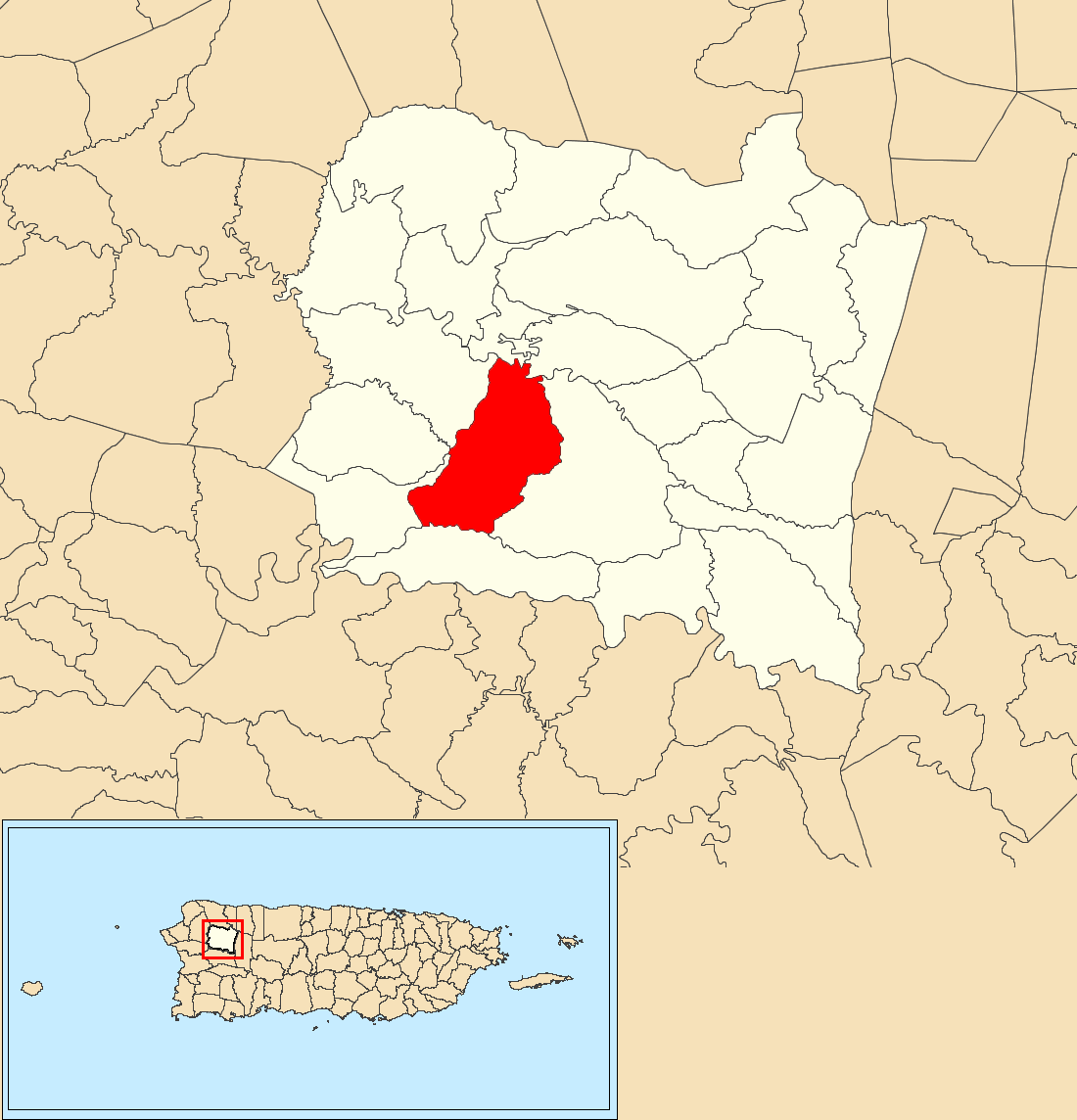 Culebrinas, San Sebastián, Puerto Rico locator map